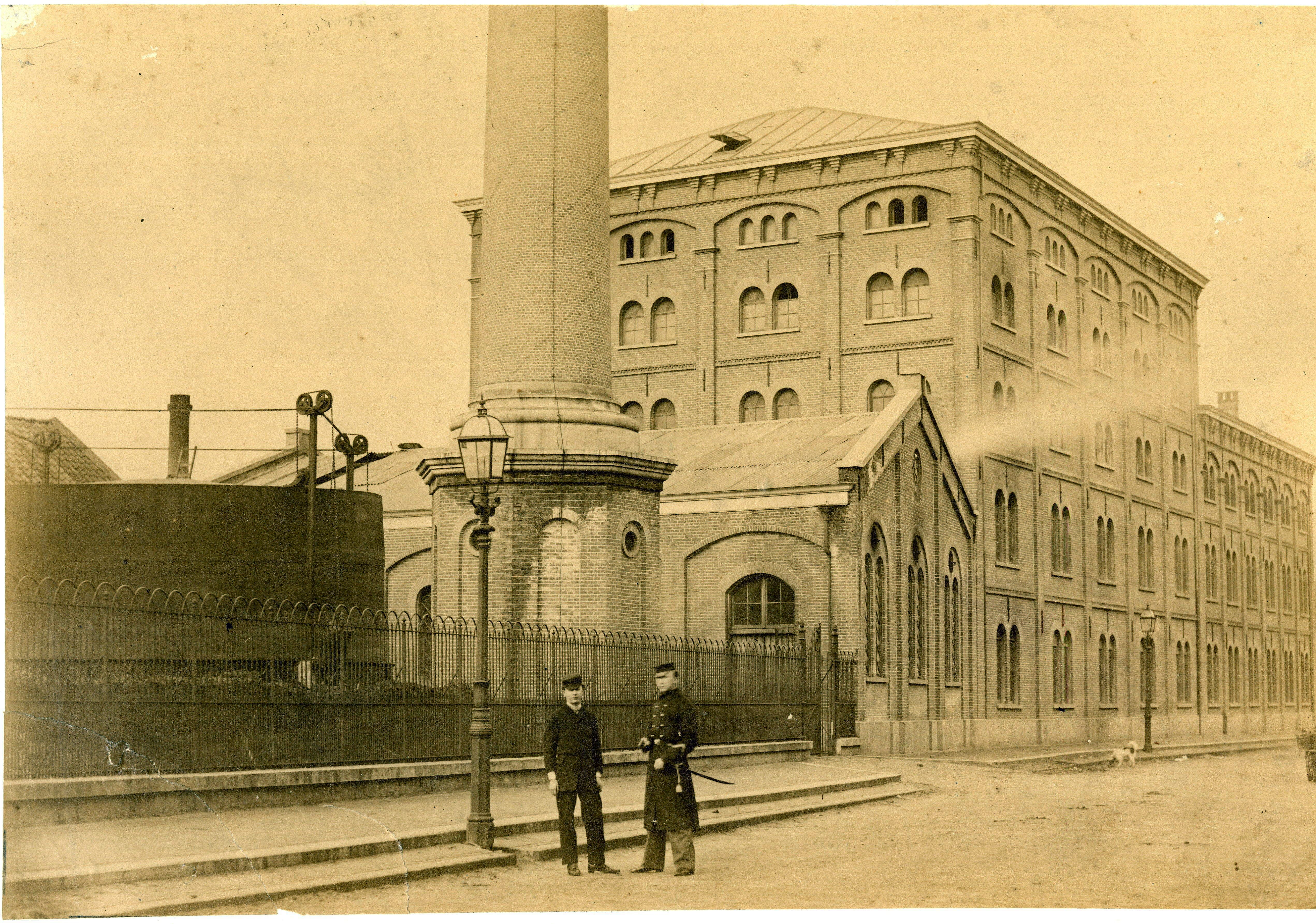 Steam Bread and Flour Factory in The Hague, the Netherlands